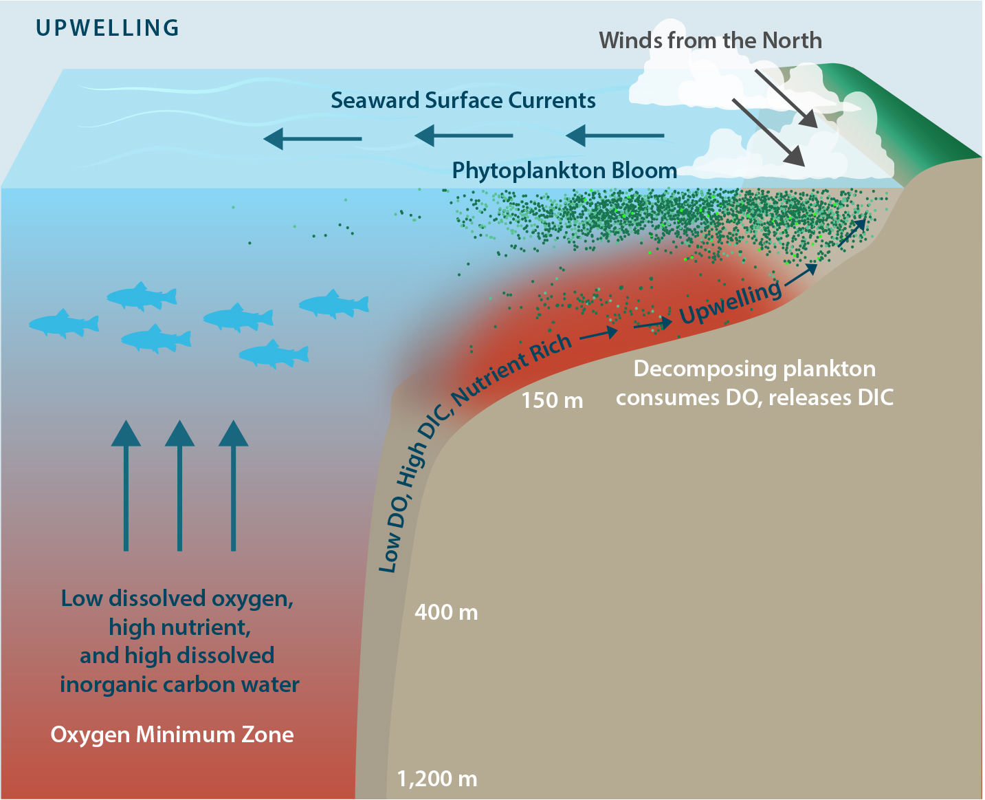 Drivers of hypoxia and ocean acidification intensification in upwelling shelf systems. Equatorward winds drive the upwelling of low dissolved oxygen (DO), high nutrient, and high dissolved inorganic carbon (DIC) water from above the oxygen minimum zone. Cross-shelf gradients in productivity and bottom water residence times drive the strength of DO (DIC) decrease (increase) as water transits across a productive continental shelf. Variations in source water DO, DIC, and nutrient content, upwelling favorable winds, and shelf processes can all accentuate or dampen the severity of hypoxia and OA exposure. Modified from Gewin (2010) by Moni Kovacs. Gewin, V. (2010) "Oceanography: Dead in the water". Nature, 466(7308): 812.